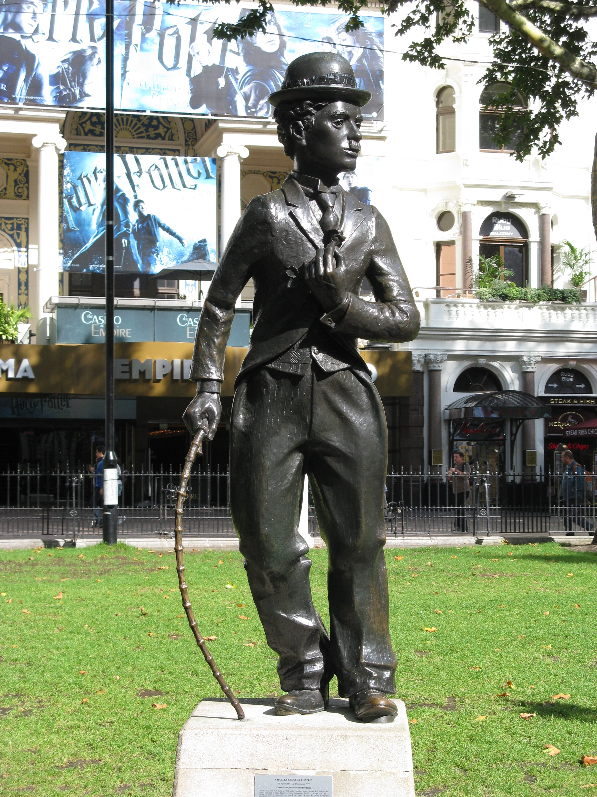 Statue of Charlie Chaplin by John Doubleday at Leicester Square.